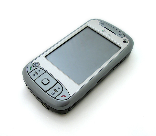 HTC TyTN / Hermes / P4500